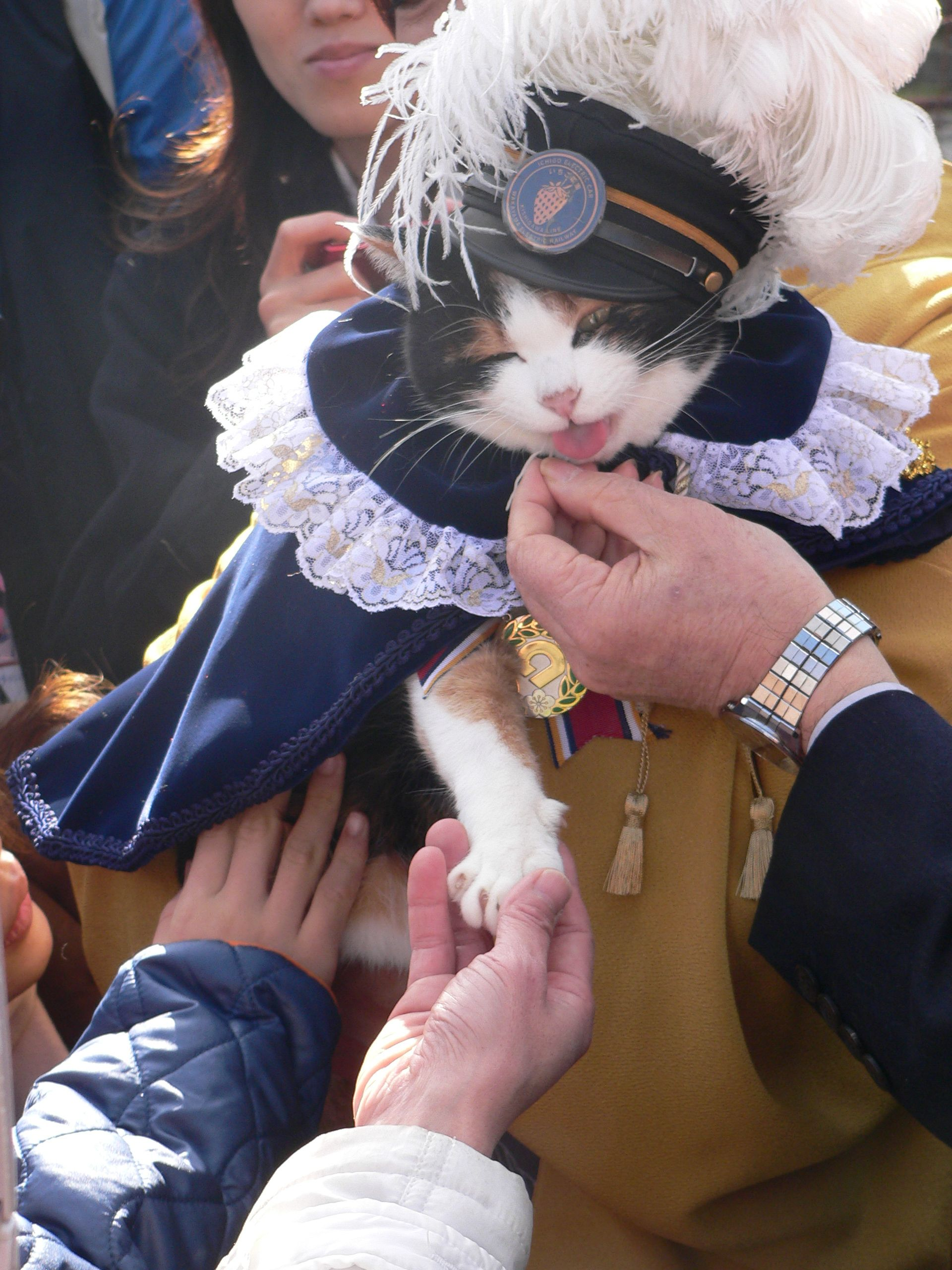 Tama, the stationmaster of Kishi Station, Wakayama Electric Railway, located in Kinokawa, Wakayama, Japan. She is called "Super stationmaster" and wears a decoration of "Wakayama de knight" given by Governor of Wakayama. In an event to celebrate the second anniversary after becoming a stationmaster. The contributor took the confirmation to her owner.